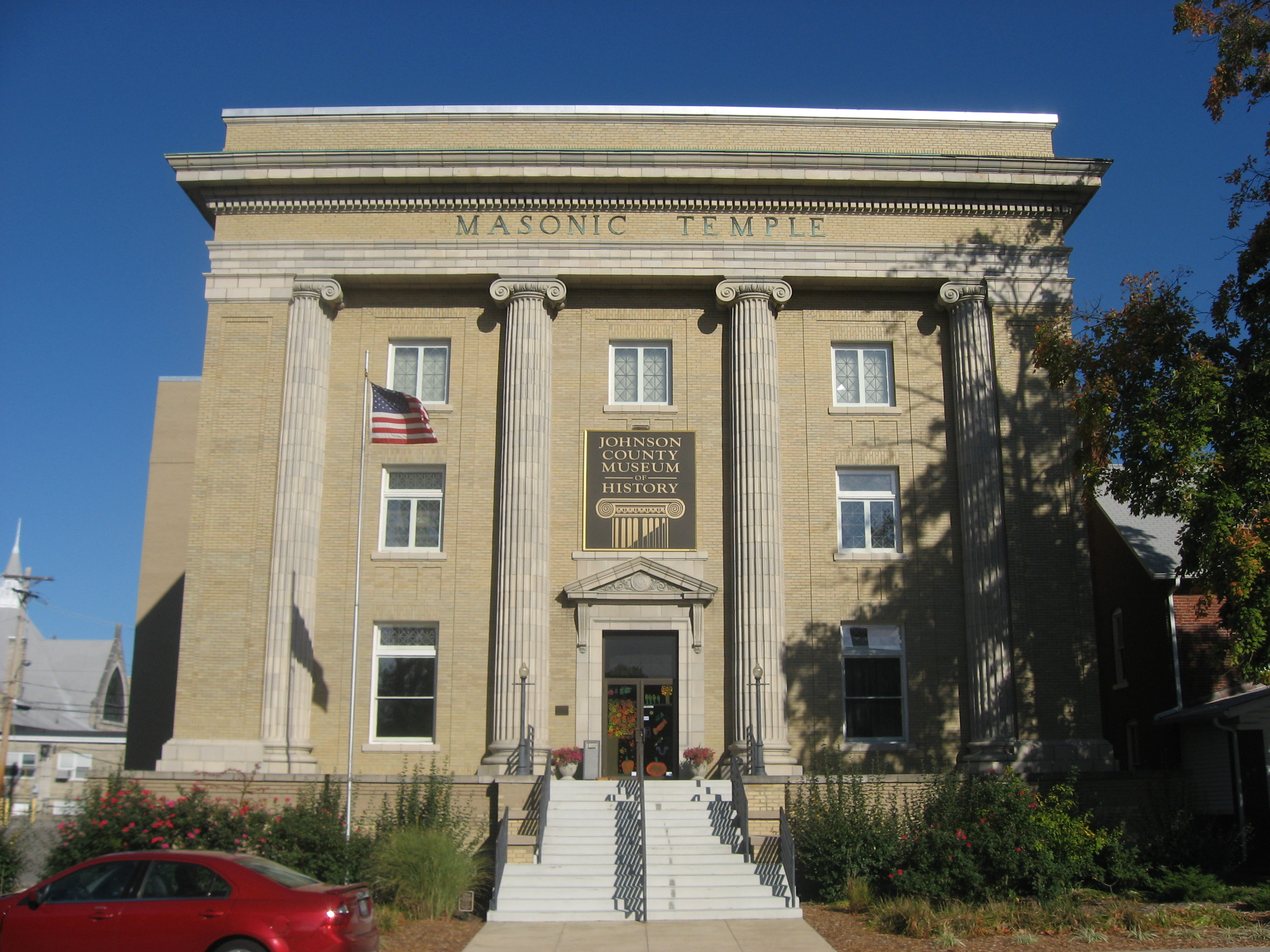 Front of the former Franklin Masonic Temple, located at 135 N. Main Street in downtown in Franklin, Indiana, United States. Built in 1922 and converted into the county history museum in 1989, it is listed on the National Register of Historic Places. Museum website.